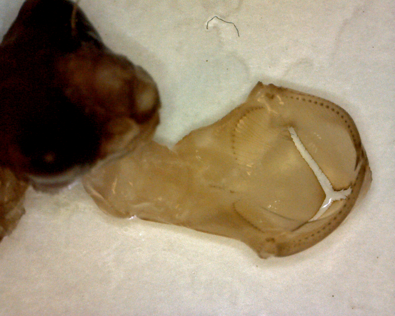 The dorsal view of the head and extended jaw of a nymph Pantala flavescens dragonfly.This individual was collected at Tyson Research Center in Eureka, Missouri.